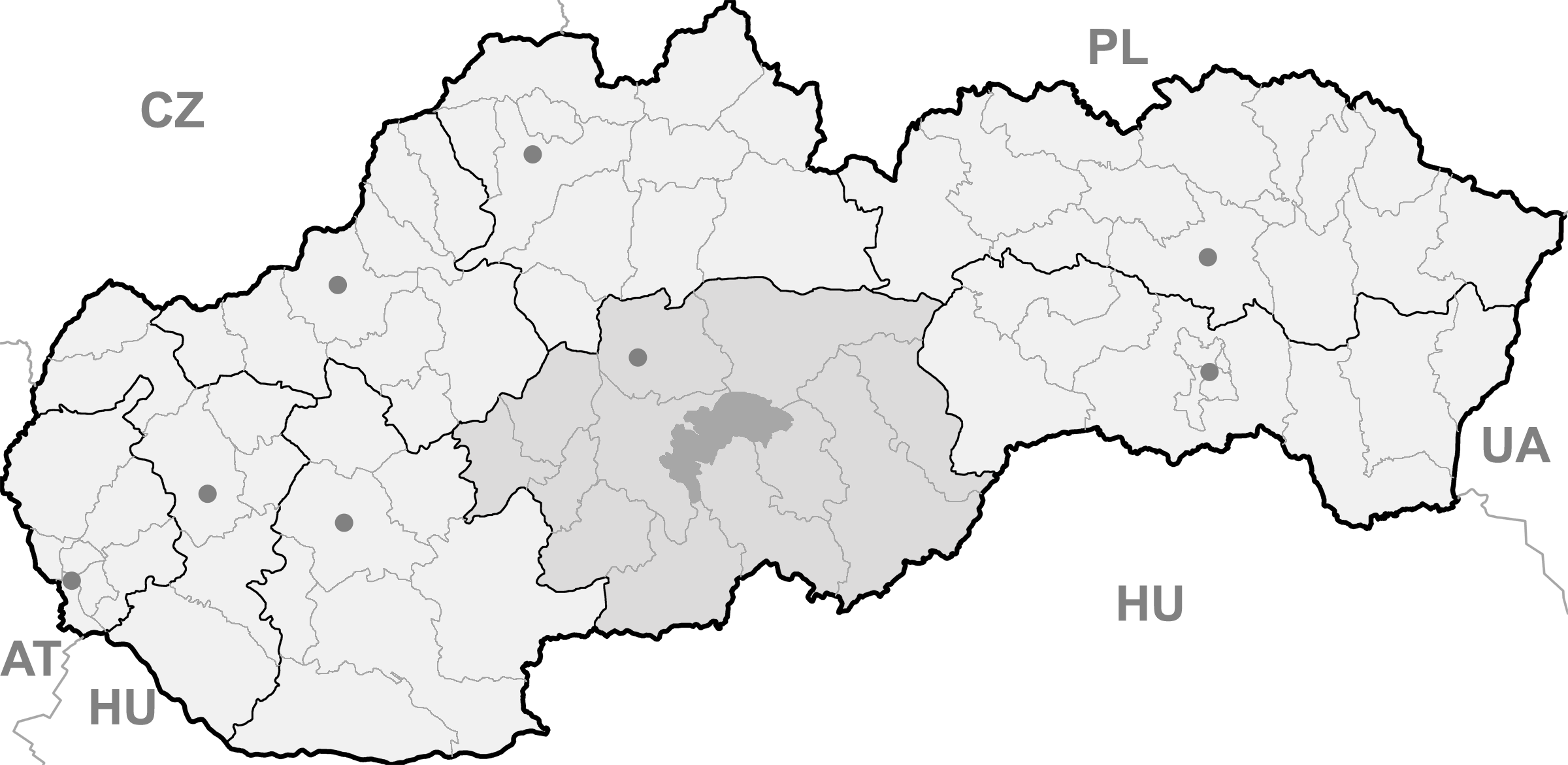 Map of Slovakia, Detva district and Banská Bystrica region highlighted